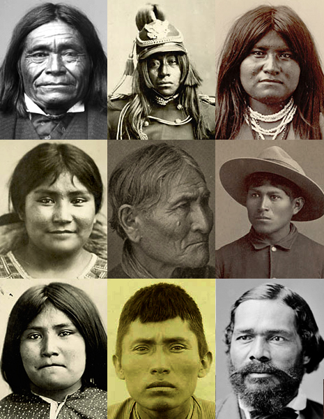 Collage of Apache portraits from public domain sources.